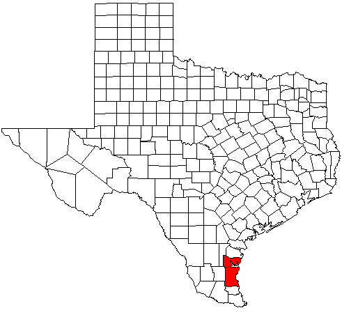 Map of Texas highlighting the Kingsville Micropolitan Statistical Area; created with the GIMP. Made by User:Acntx.